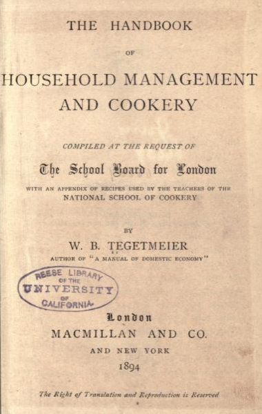 Couverture of The handbook of household management and cookery, comp. at the request of the School board for London, with an appendix of recipes used by the teachers of the National school of cookery (1894)